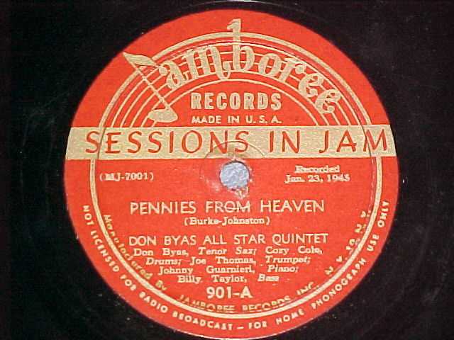 don byas all-stars pennies from heaven